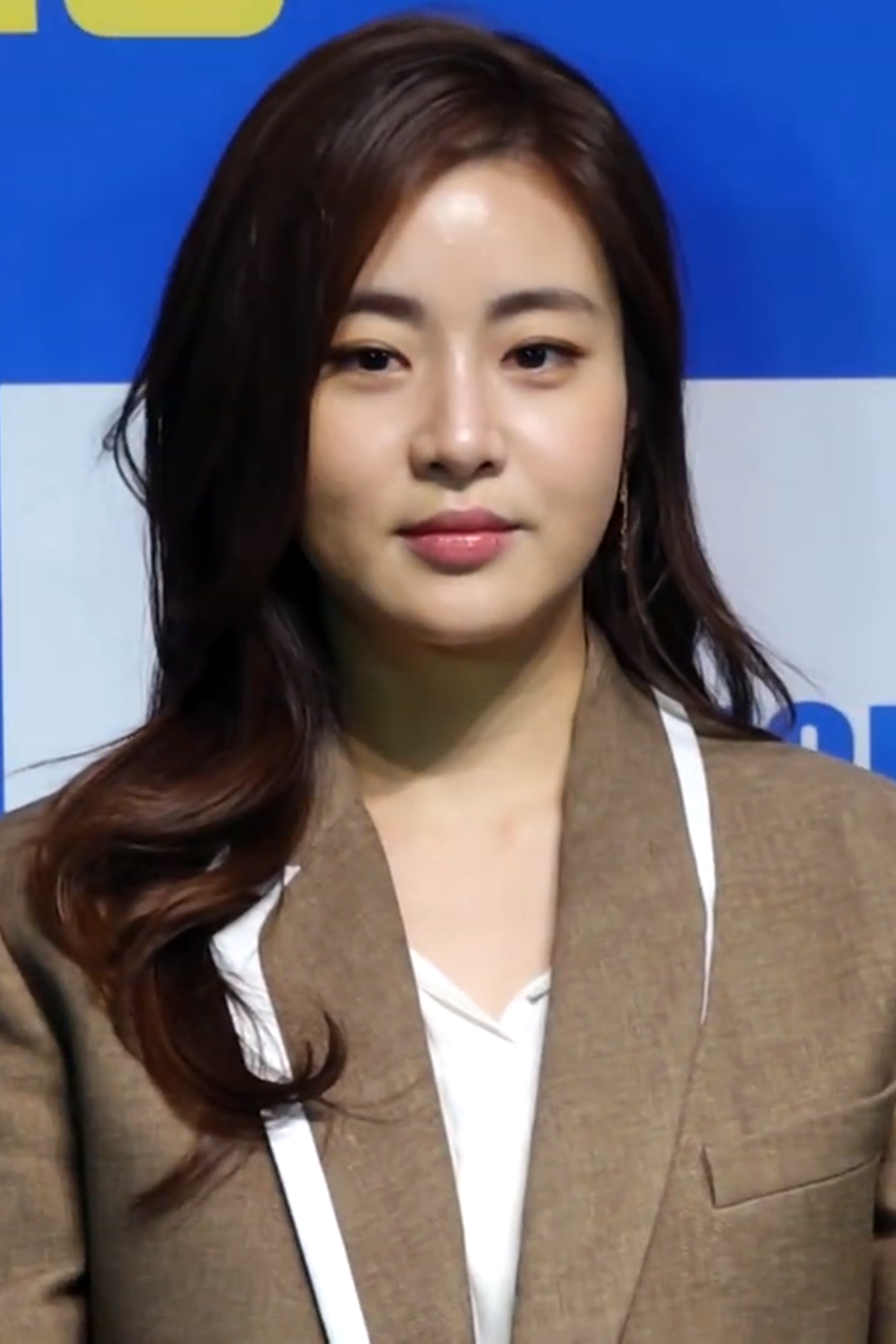 Kang So-ra during at the Secret Zoo Press Conference on December 18, 2019.